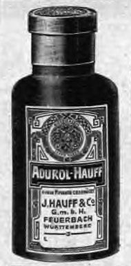 Part of advertisement of Adurol-Hauff photographic developing agent (Chlorohydroquinone)